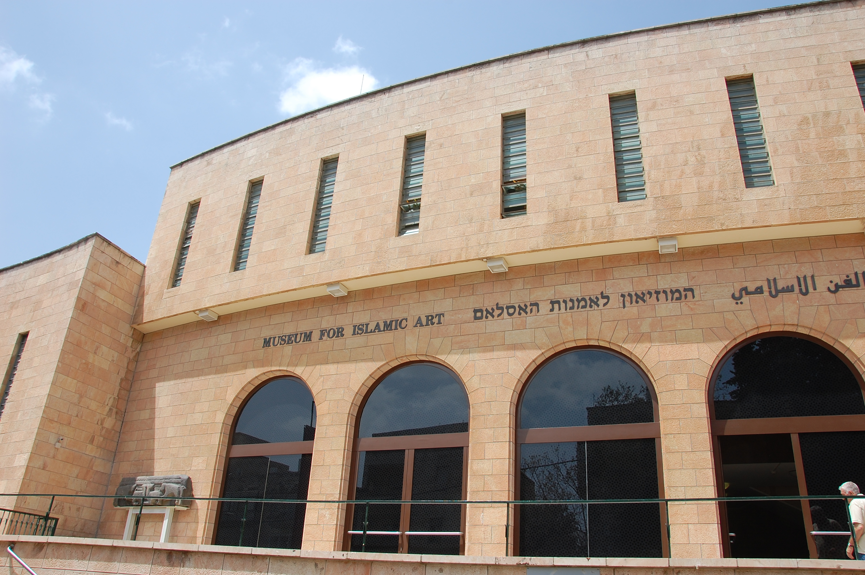 L. A. Mayer Institute